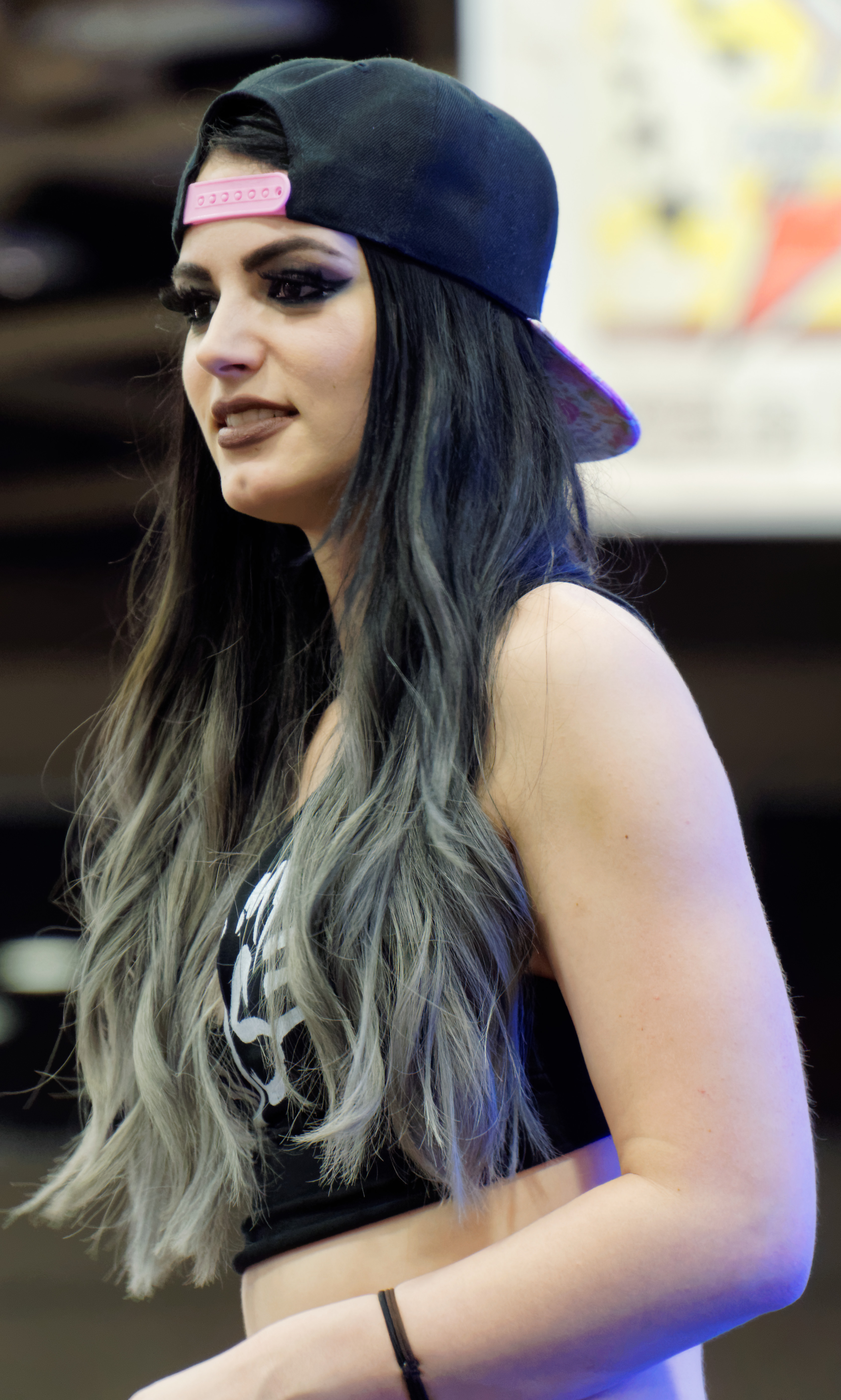 WrestleMania Axxess takes over the Kay Bailey Hutchison Convention Center in Dallas March 31-April 3. Featuring Superstar and Diva meet-and-greets, memorabilia displays and much more, WrestleMania Axxess is one event WWE fans of all ages will want to be part of. Don't miss out!